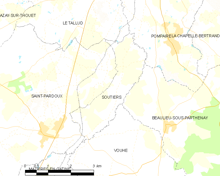 Map of French municipality Soutiers